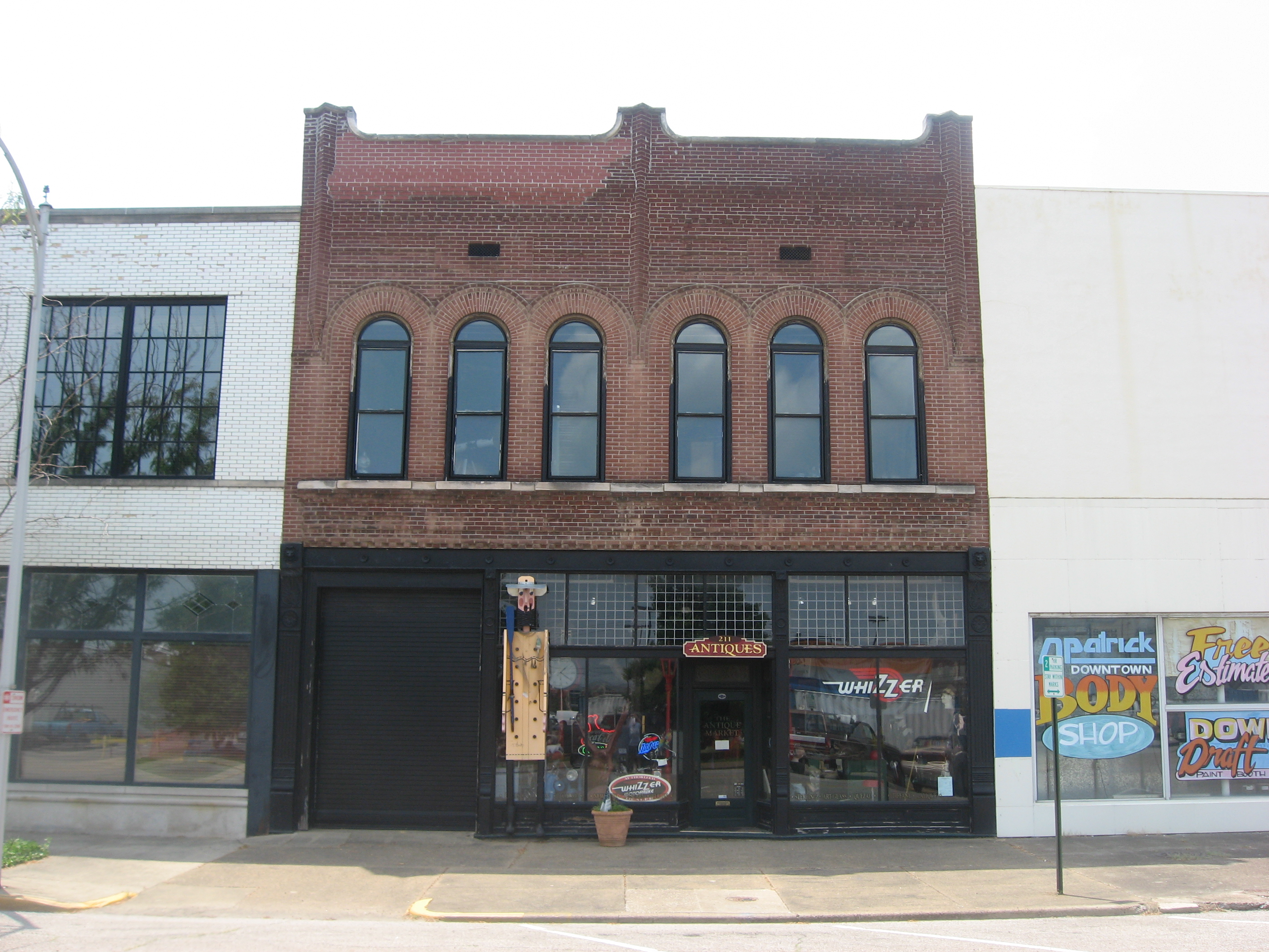 Front of the H.G. Newman Building, located at 211-213 SE. Fourth Street in Evansville, Indiana, United States. Built in 1900, it is listed on the National Register of Historic Places.